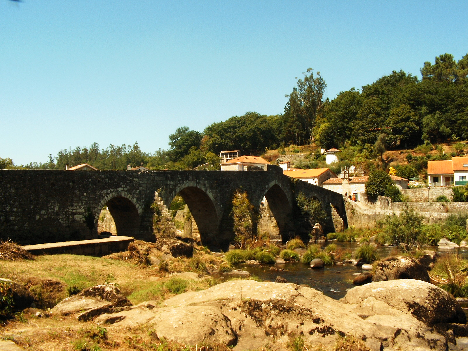 The Way of St. James or St. James' Way, often known by its Spanish name, el Camino de Santiago, is the pilgrimage to the Cathedral of Santiago de Compostela in Galicia in northwestern Spain, where legend has it that the remains of the apostle, Saint James the Great, are buried. The Way of St James has existed for over a thousand years. It was one of the most important Christian pilgrimages during medieval times. It was considered one of three pilgrimages on which a plenary indulgence could be earned;[citation needed] the others are the Via Francigena to Rome and the pilgrimage to Jerusalem. Legend holds that St. James's remains were carried by boat from Jerusalem to northern Spain where they were buried on the site of what is now the city of Santiago de Compostela. There are some, however, who claim that the bodily remains at Santiago belong to Priscillian, the fourth-century Galician leader of an ascetic Christian sect, Priscillianism, who was one of the first Christian heretics to be executed. There is not a single route; the Way can take one of any number of pilgrimage routes to Santiago de Compostela. However a few of the routes are considered main ones. Santiago is such an important pilgrimage destination because it is considered the burial site of the apostle, James the Great. During the Middle Ages, the route was highly travelled. However, the Black Plague, the Protestant Reformation and political unrest in 16th- century Europe resulted in its decline. By the 1980s, only a few pilgrims arrived in Santiago annually. However, since then, the route has attracted a growing number of modern-day pilgrims from around the globe. The route was declared the first European Cultural Route by the Council of Europe in October 1987; it was also named one of UNESCO's World Heritage Sites in 1993.